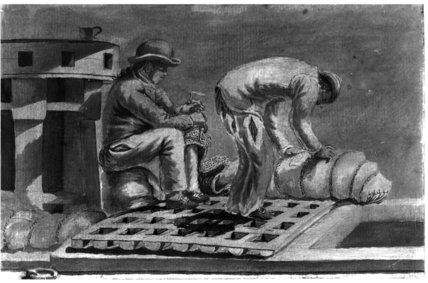 The sailmaker ticketing the hammocks on board 'Pallas